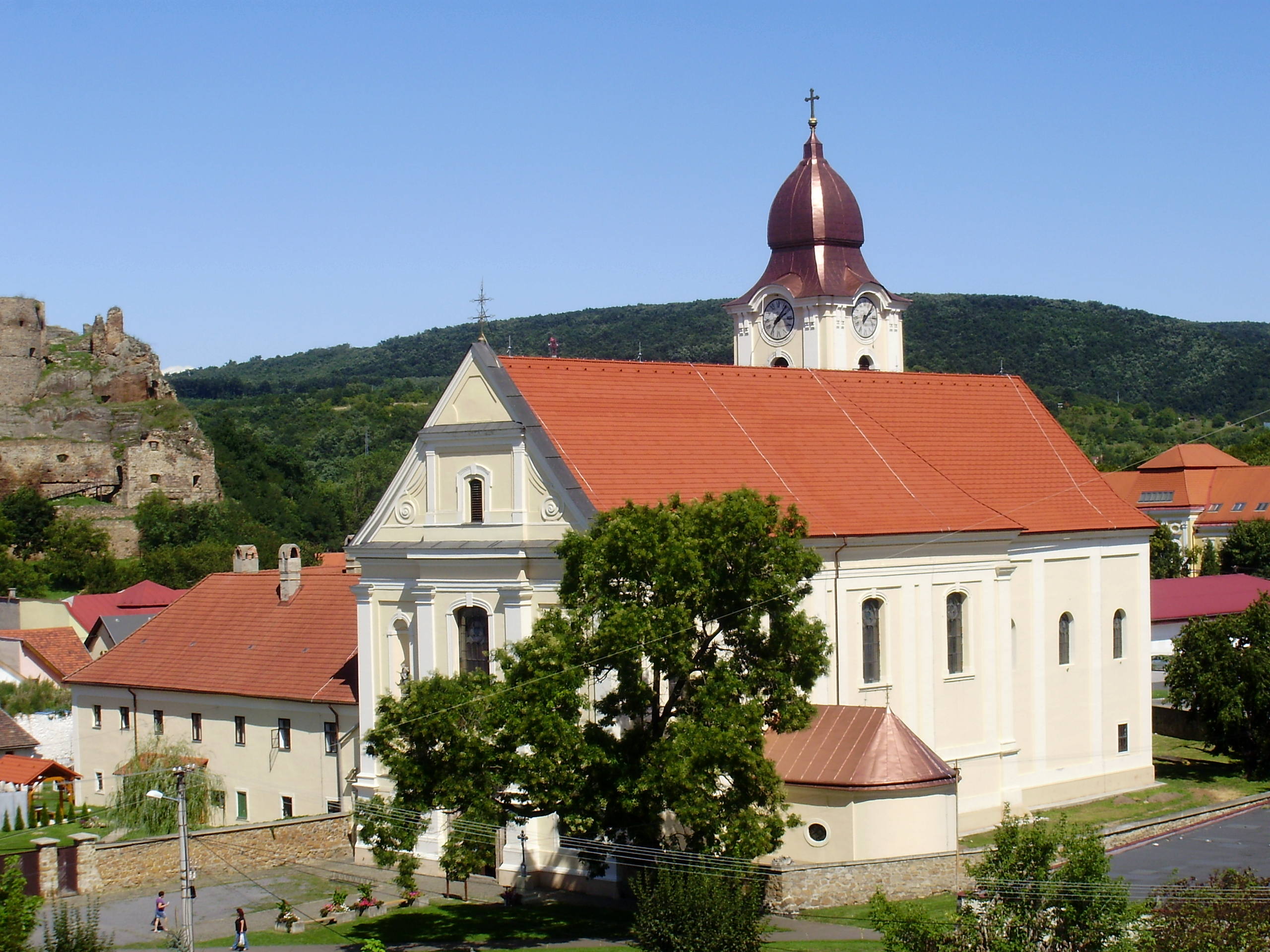 Filakovo catholic church